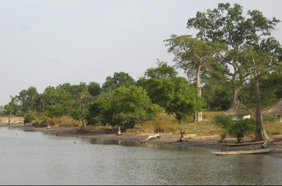 Bintang Bolong near Kalaji